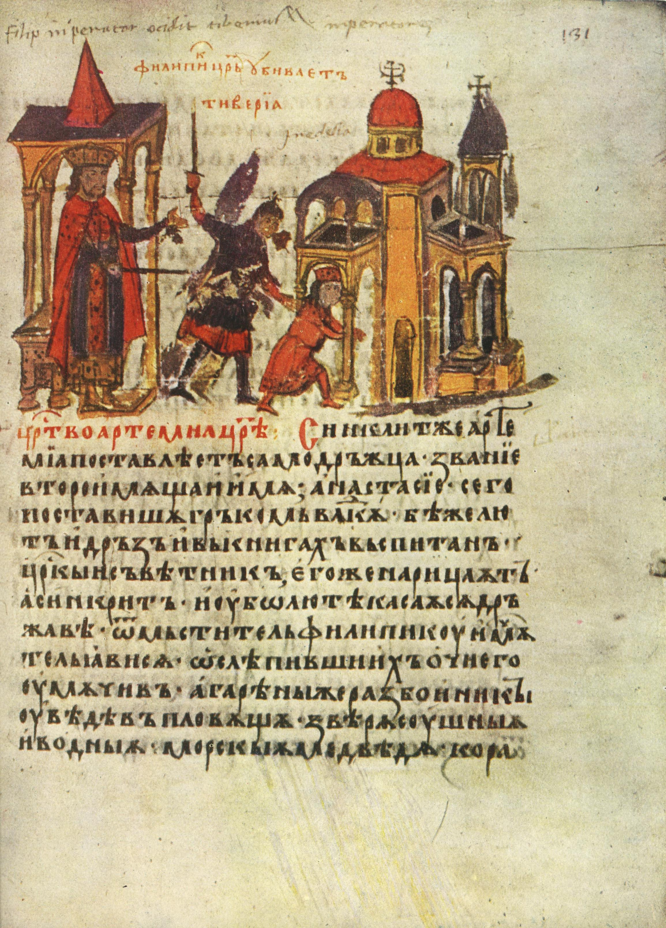 Miniature 46 from the Constantine Manasses Chronicle, 14 century: Murder of Tiberios, son of Justinian II, under the orders of emperor Philippikos